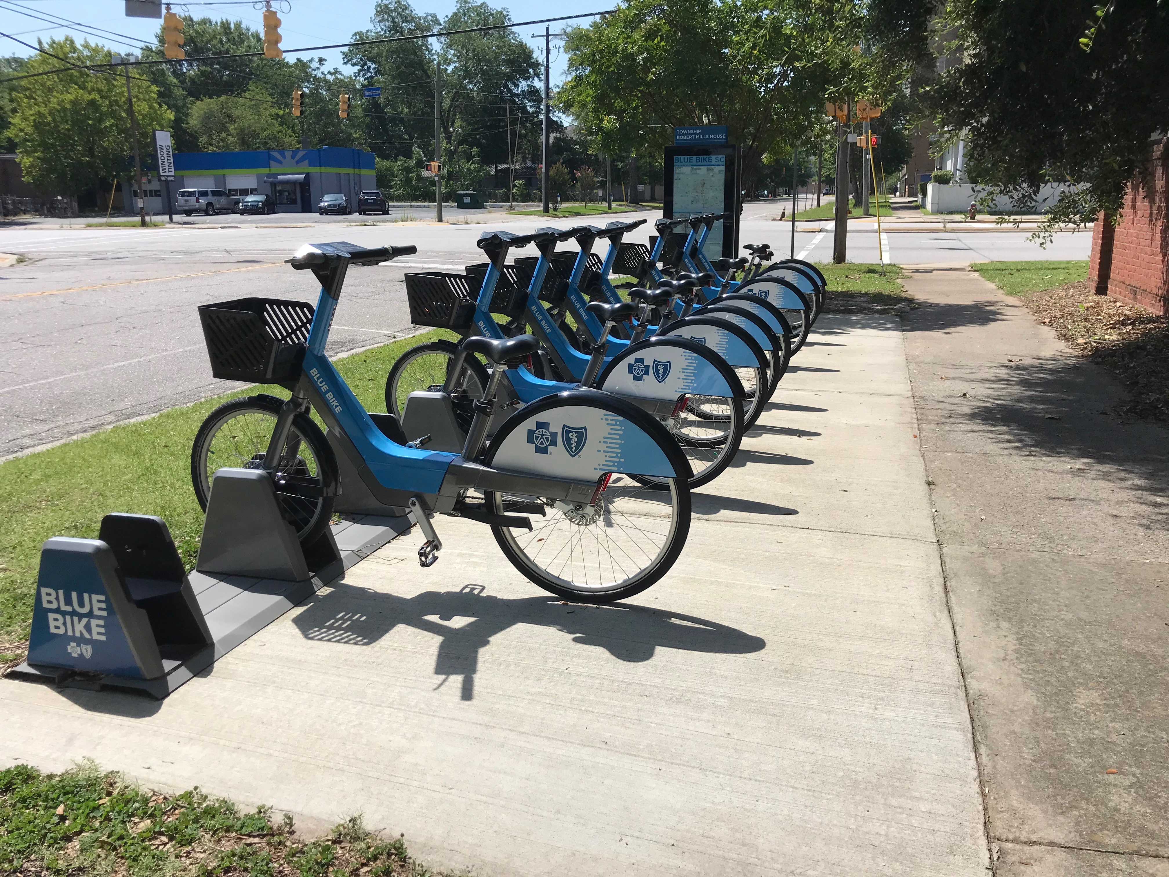 Bicycles available for rental in Columbia, SC